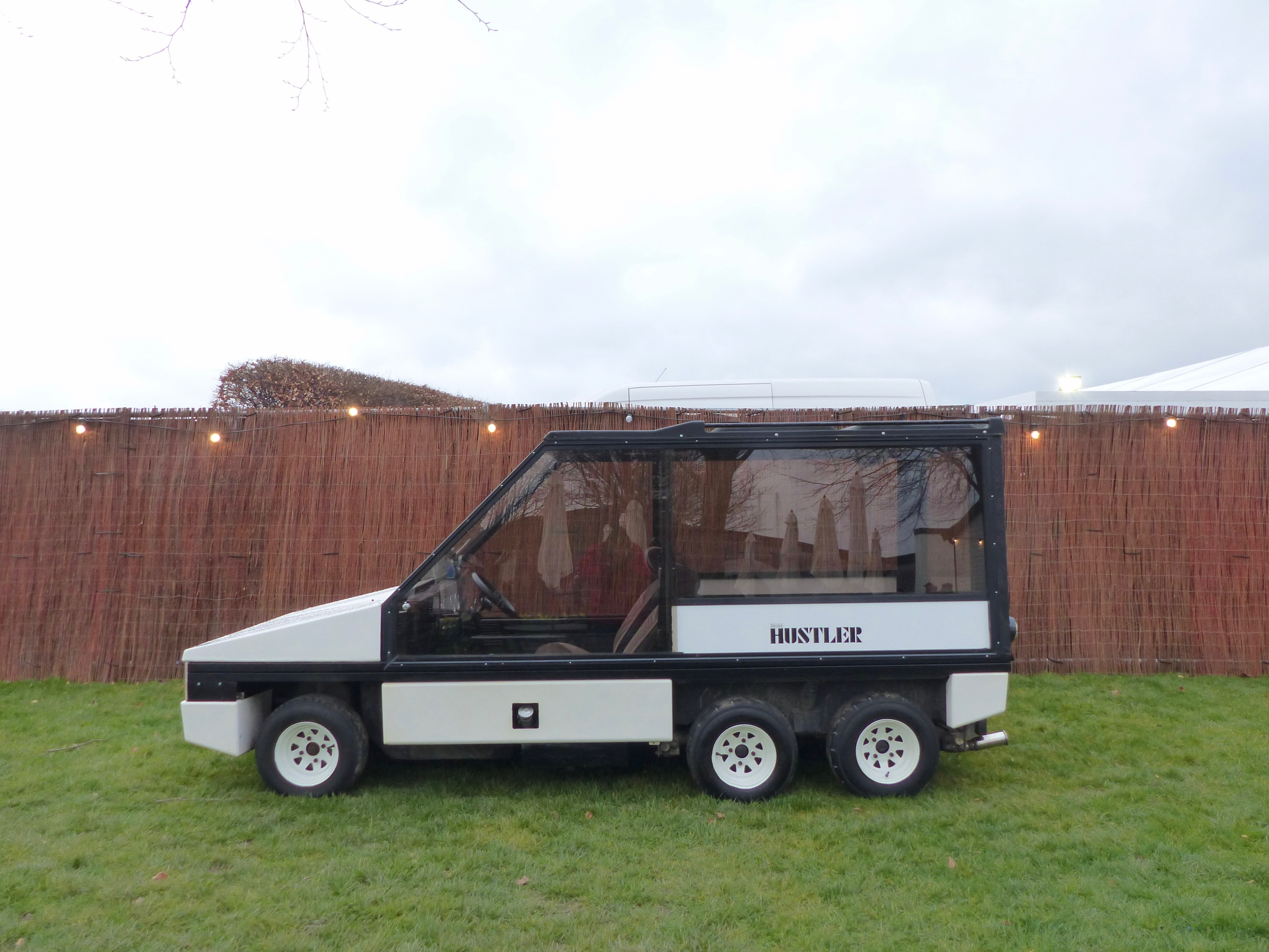 The 6 wheel version of the Hustler, based on a Mini prototype.